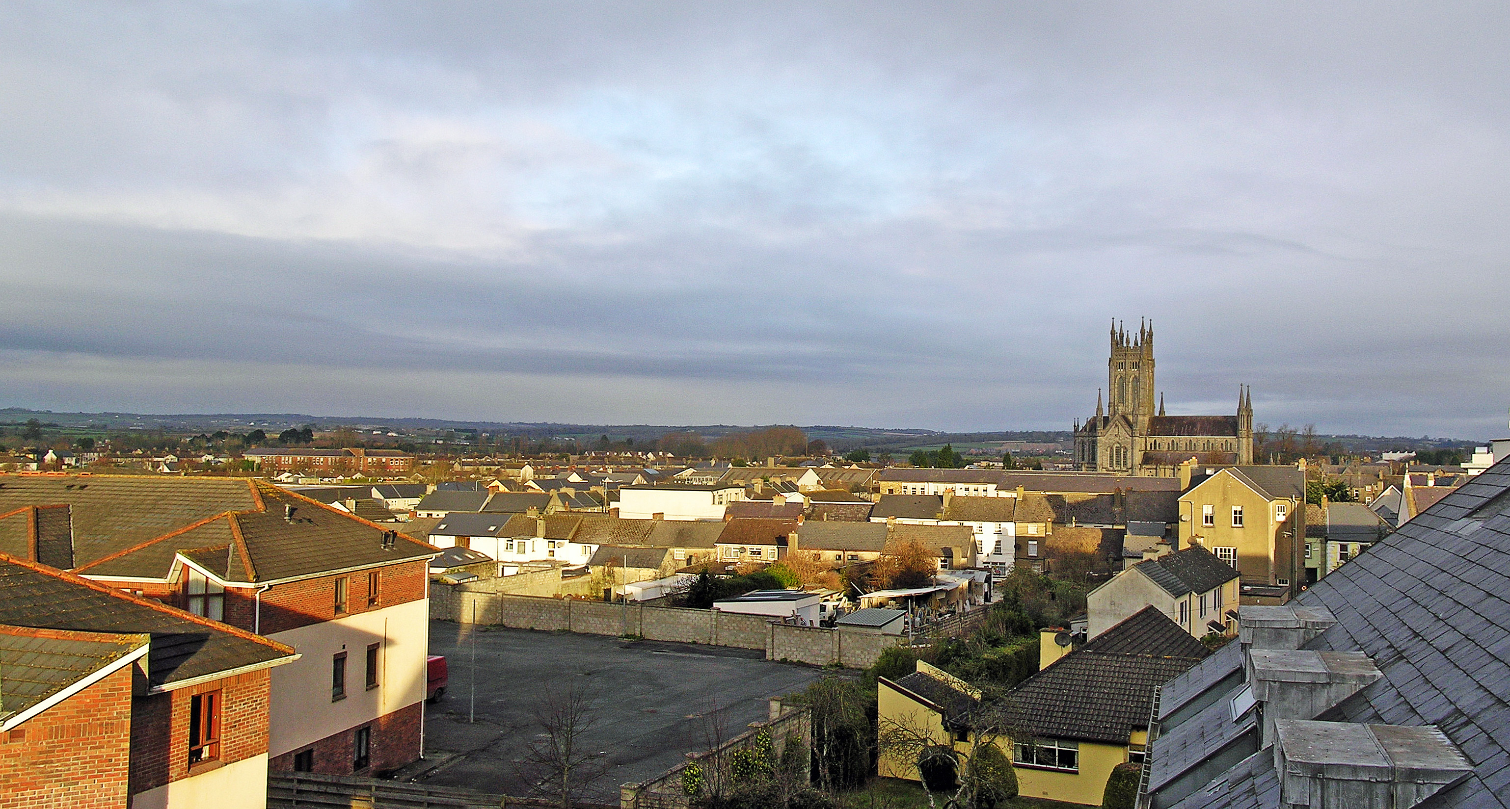 Kilkenny Panorama, Ireland